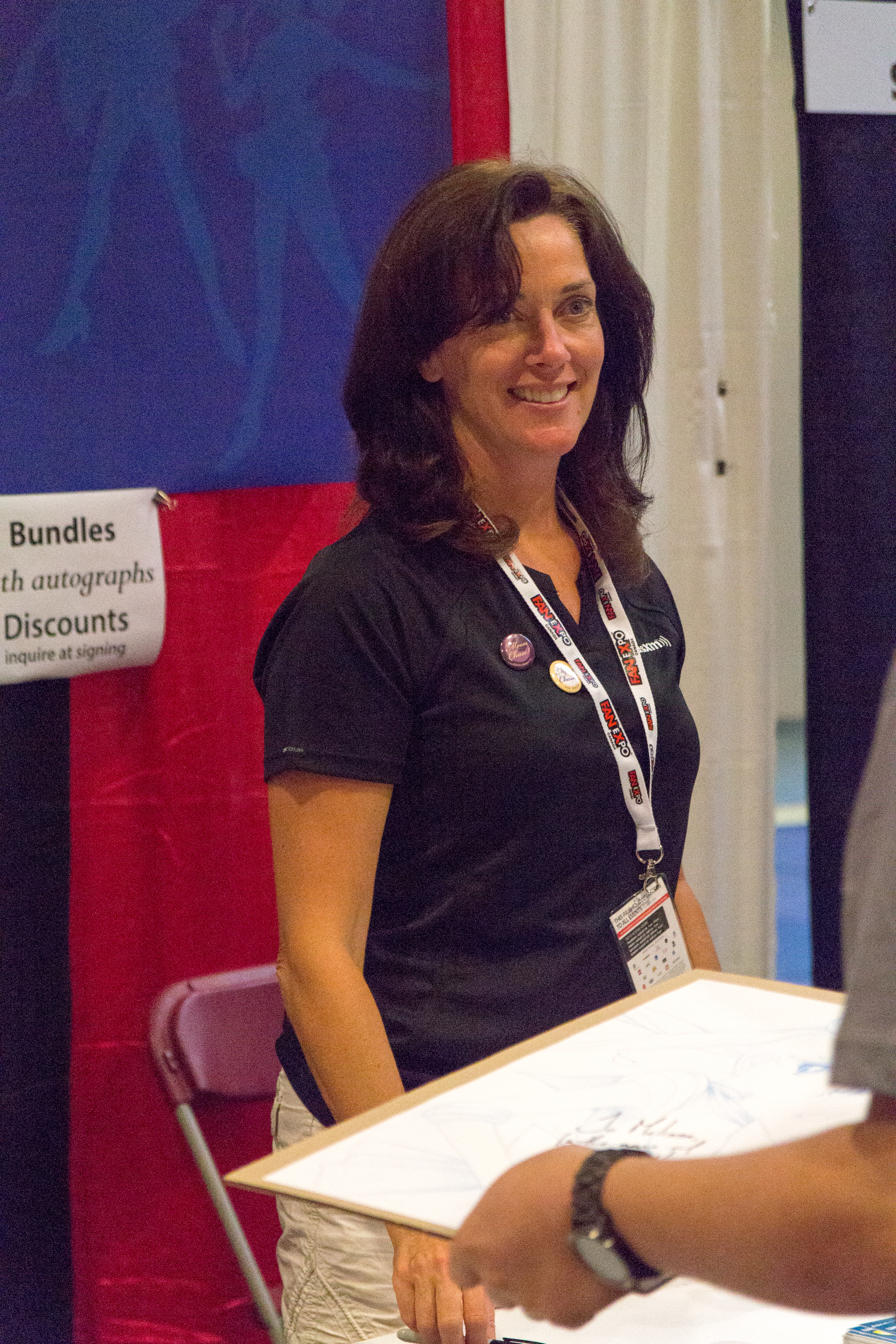 Linda Ballantyne in 2013